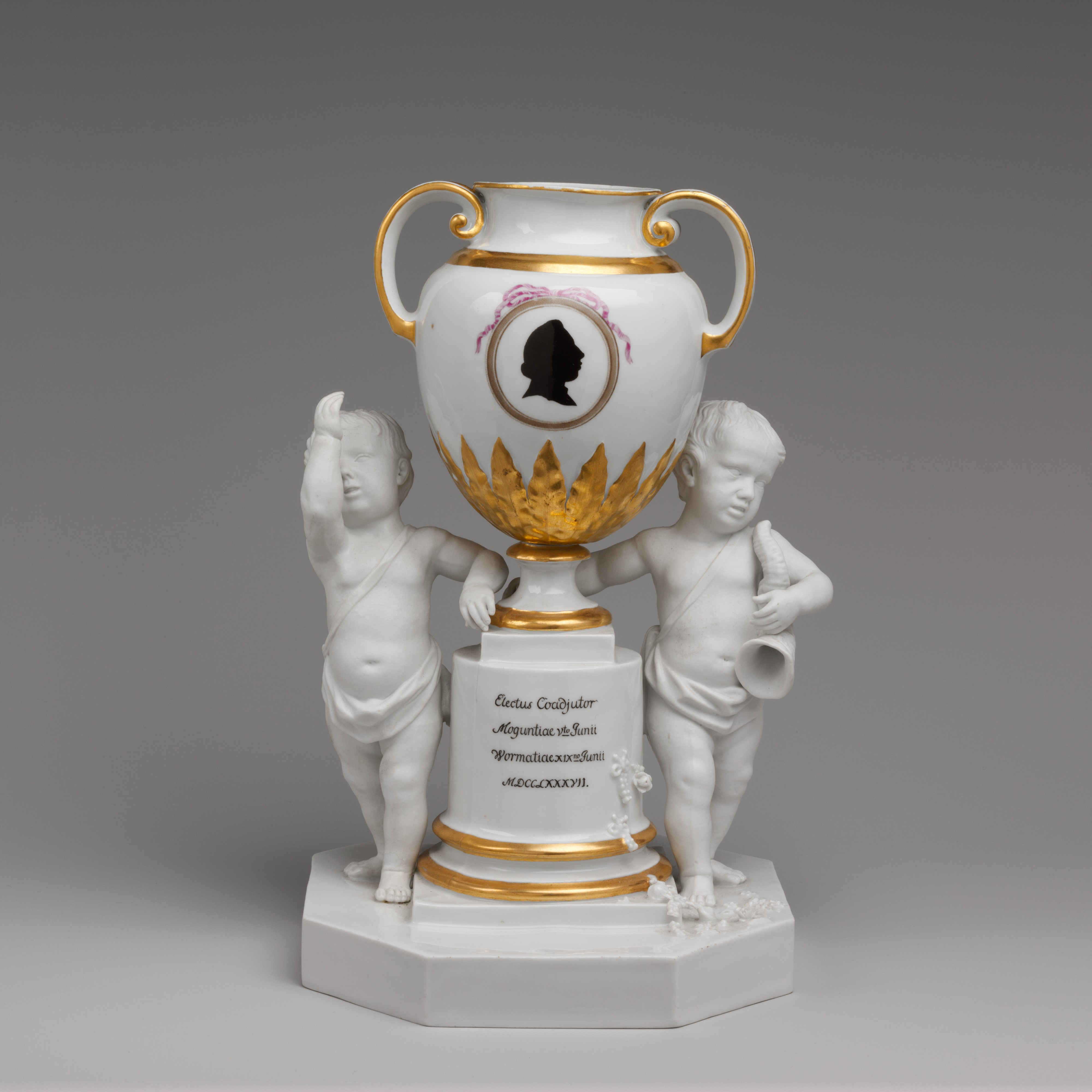 German, Fürstenberg; Vase; Ceramics-Porcelain